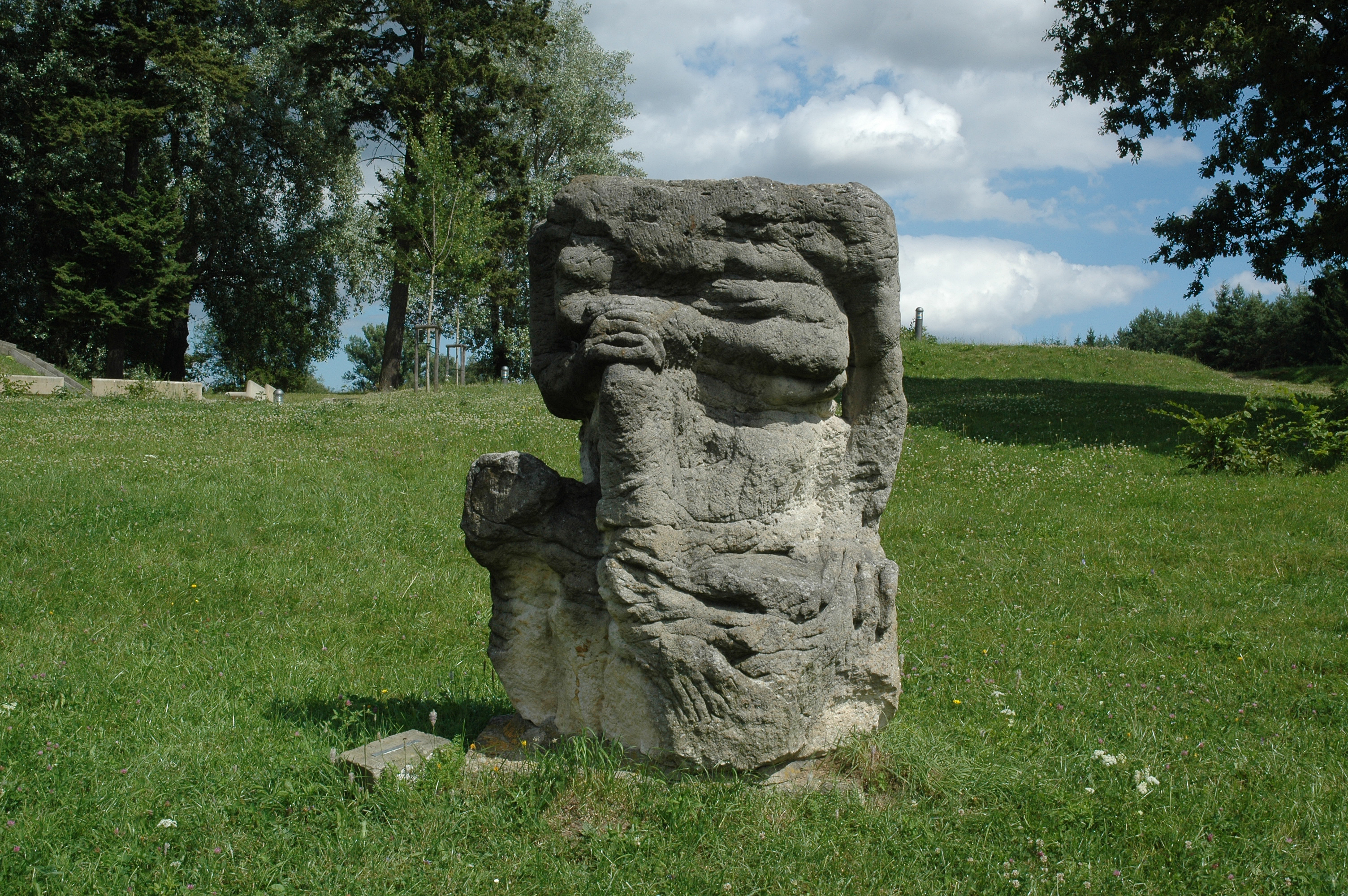 Michael Schoenholtz (Germany) - Lady (1966)